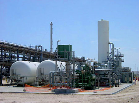 The cryogenic nitrogen plant